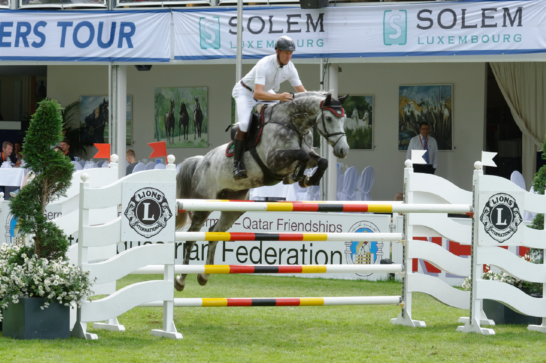 Internationales Pfingstturnier Wiesbaden 2014: Andre Thieme mit Conthendrix The making of this document was supported by the Community-Budget of Wikimedia Germany.